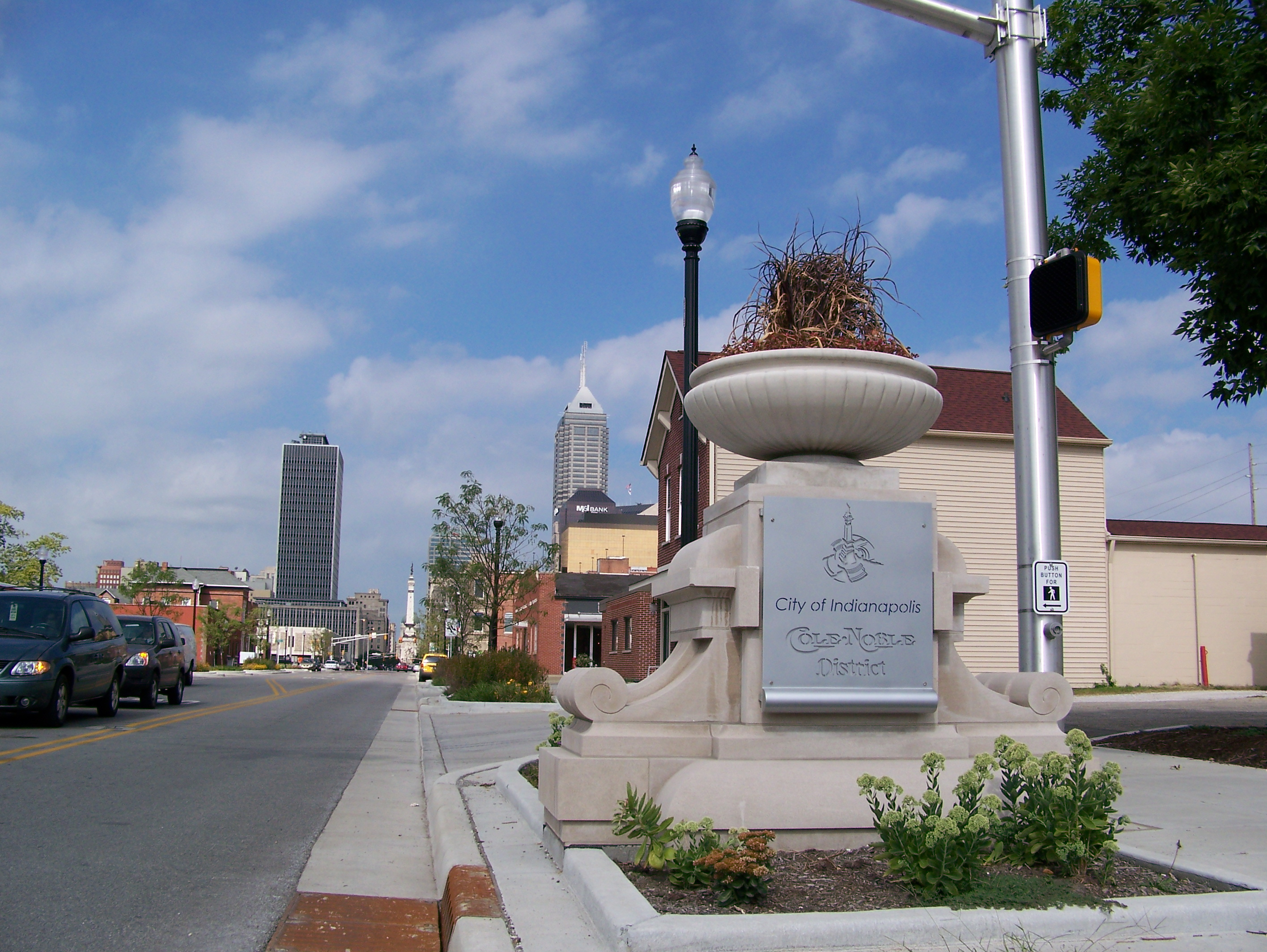 This is a picture of Indianapolis' Market Street from the Cole-Noble District